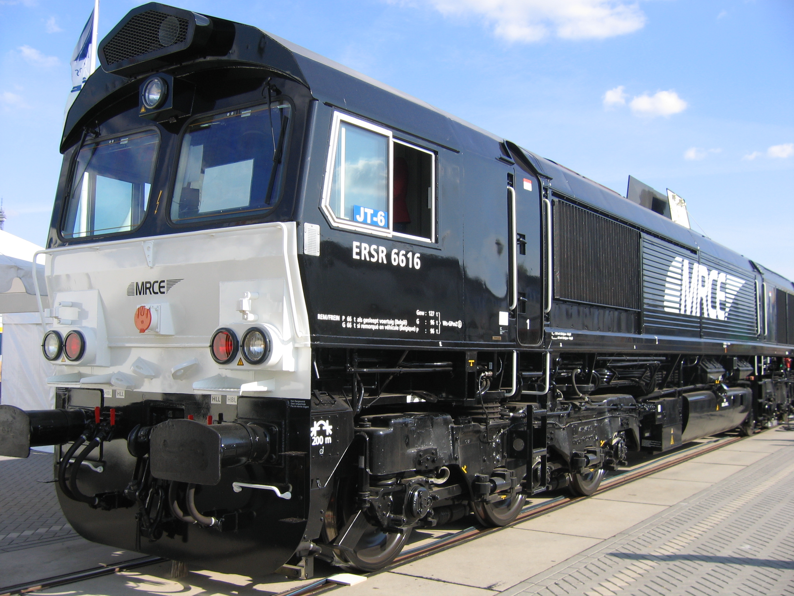 MRCE ERSR 6616 Innotrans 2006, Berlin